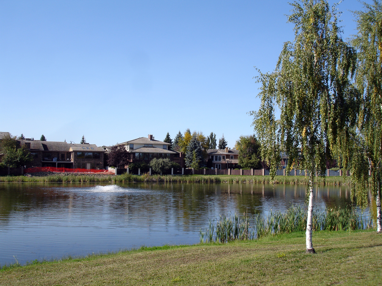 Lakeview Park with its artificial lake in September 2007.